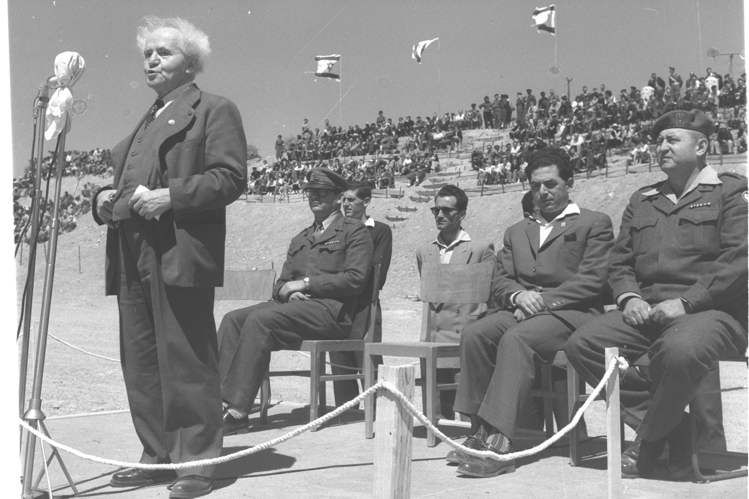 Ben-Gurion speaking at the 10th anniversary celebration of Eilat